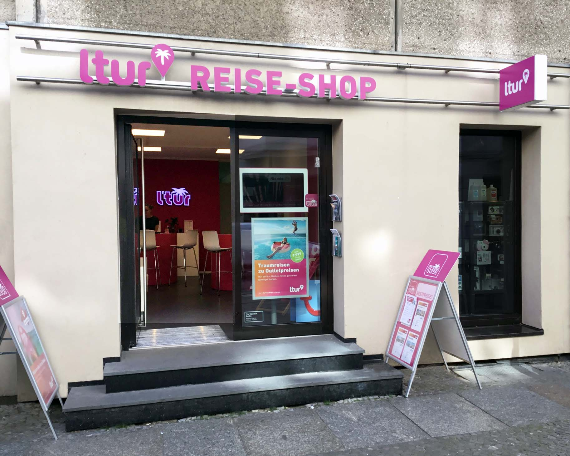 ltur shop berlin